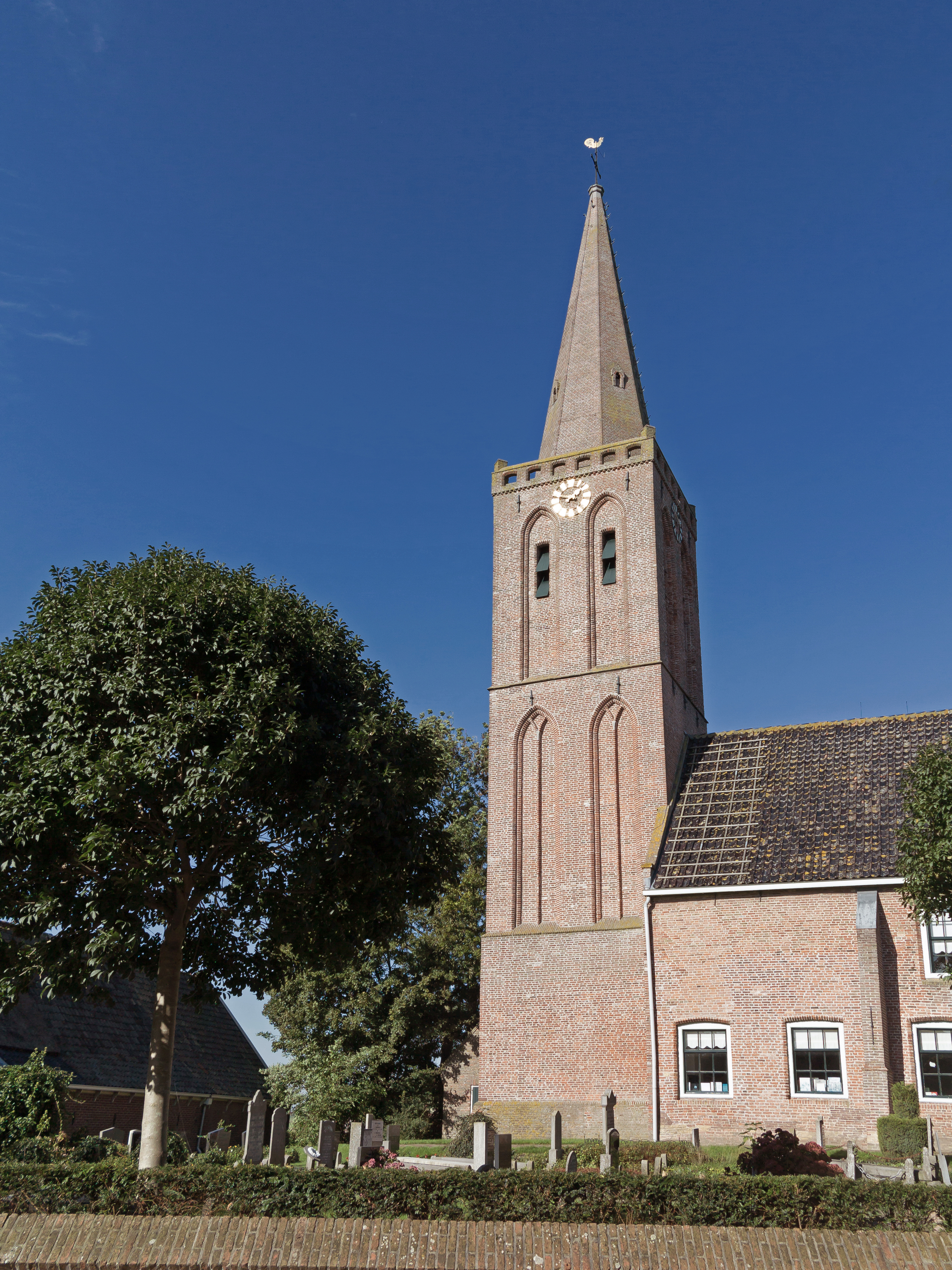 Twisk, reformed church